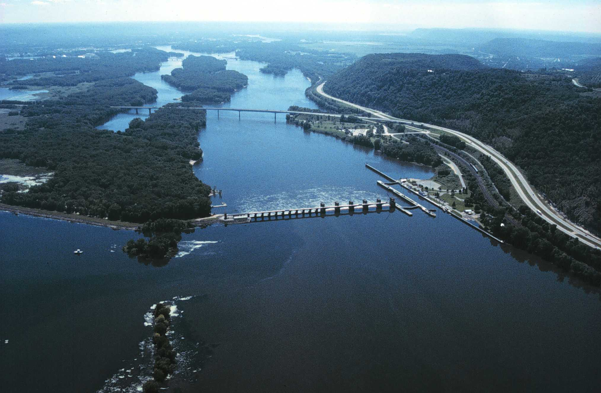 Mississippi River Lock and Dam number 7 with the I-90 Mississippi River bridge downstream.